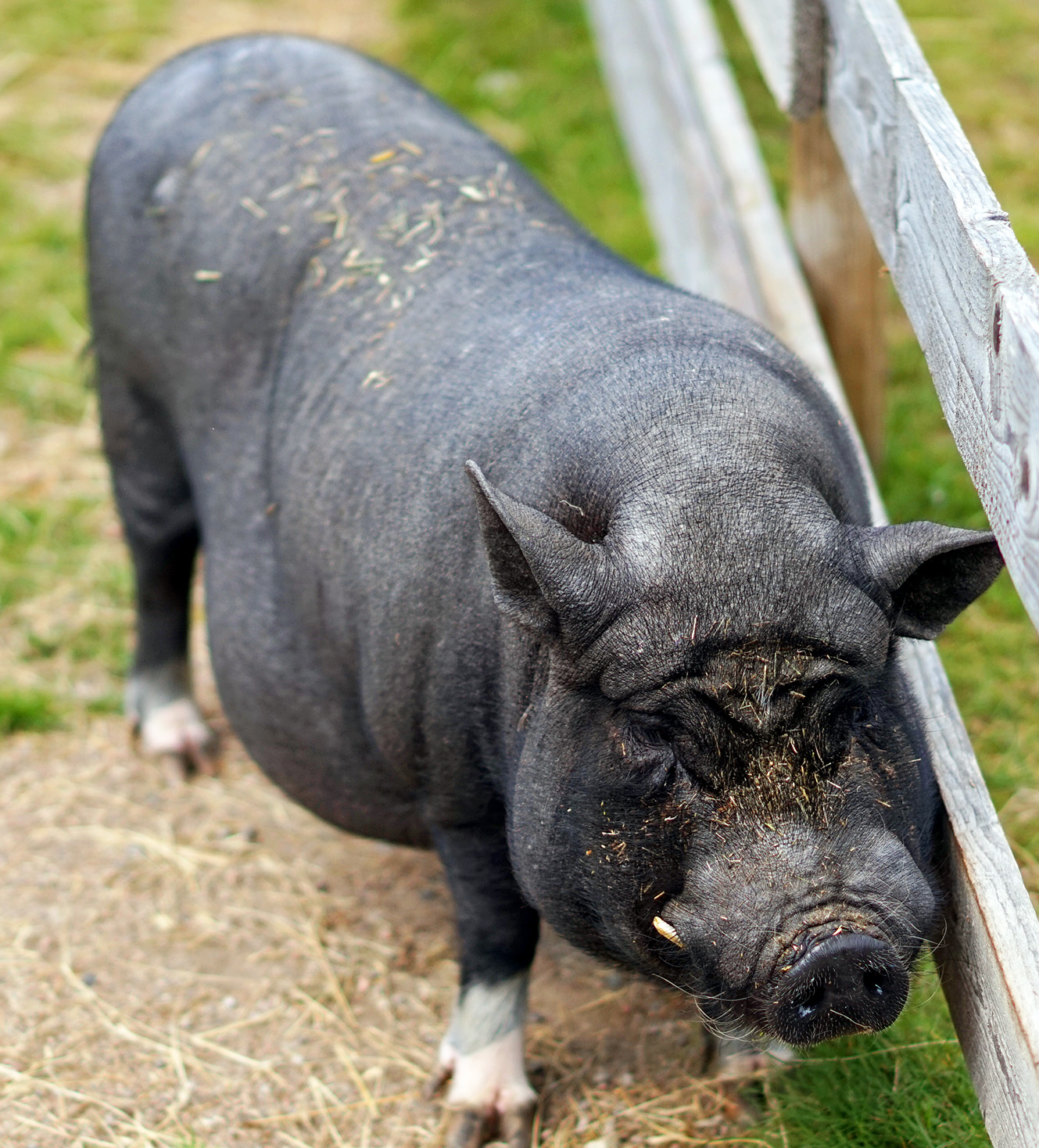 A black mini pig in Ysitien Lemmikki, Leppälahti, Jyväskylä.